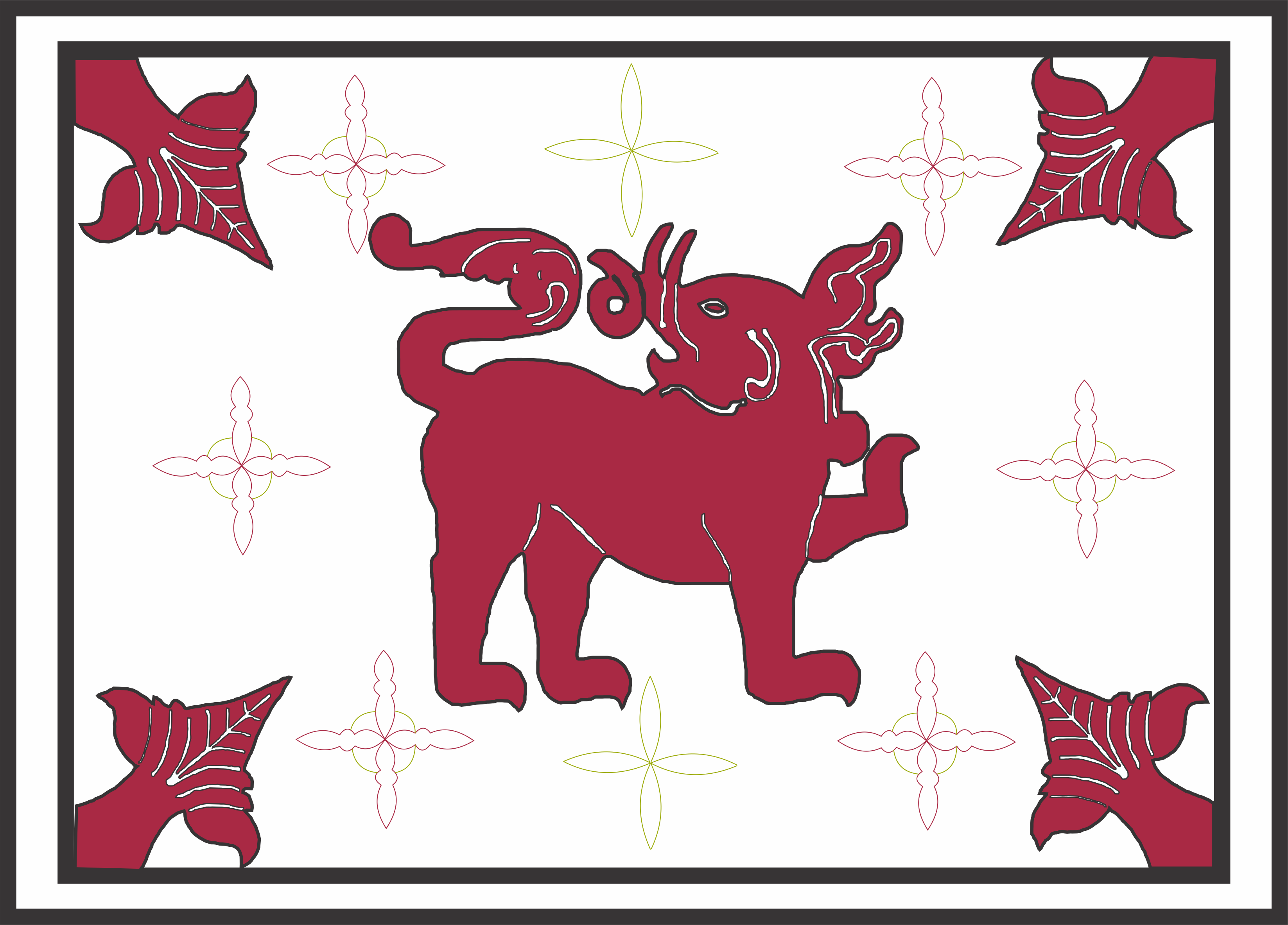 Flag of Sitawaka Kingdom with a red elephant in the middle, four Bo leaves in the corners and stars surrounding the elephant.